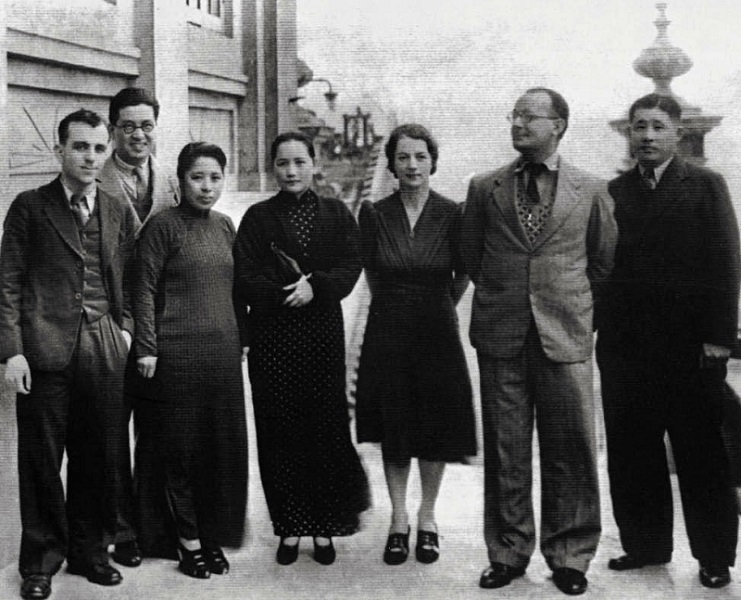 China Defense League